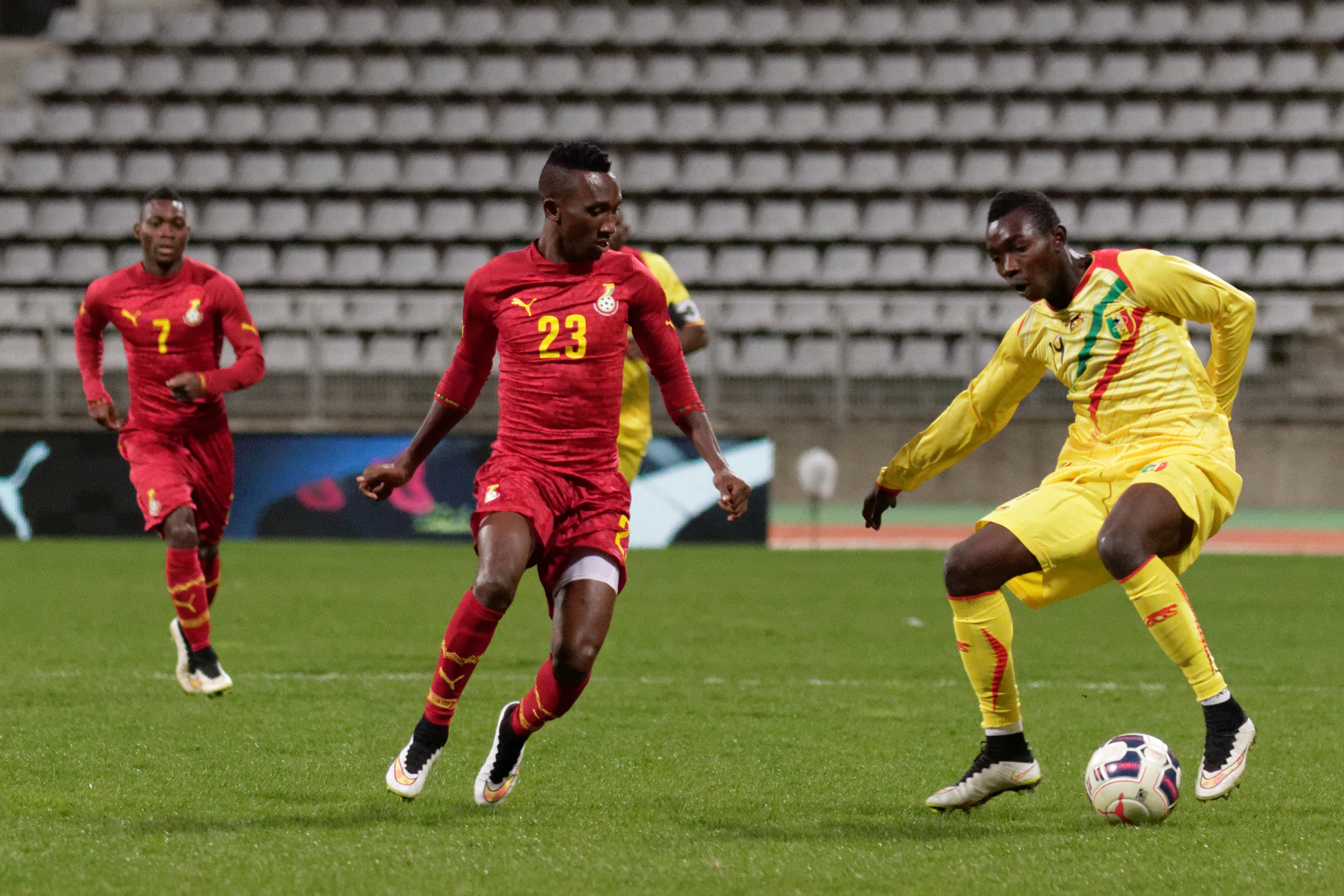 Mali vs Ghana, exhibition game at Paris, 31st March 2015.